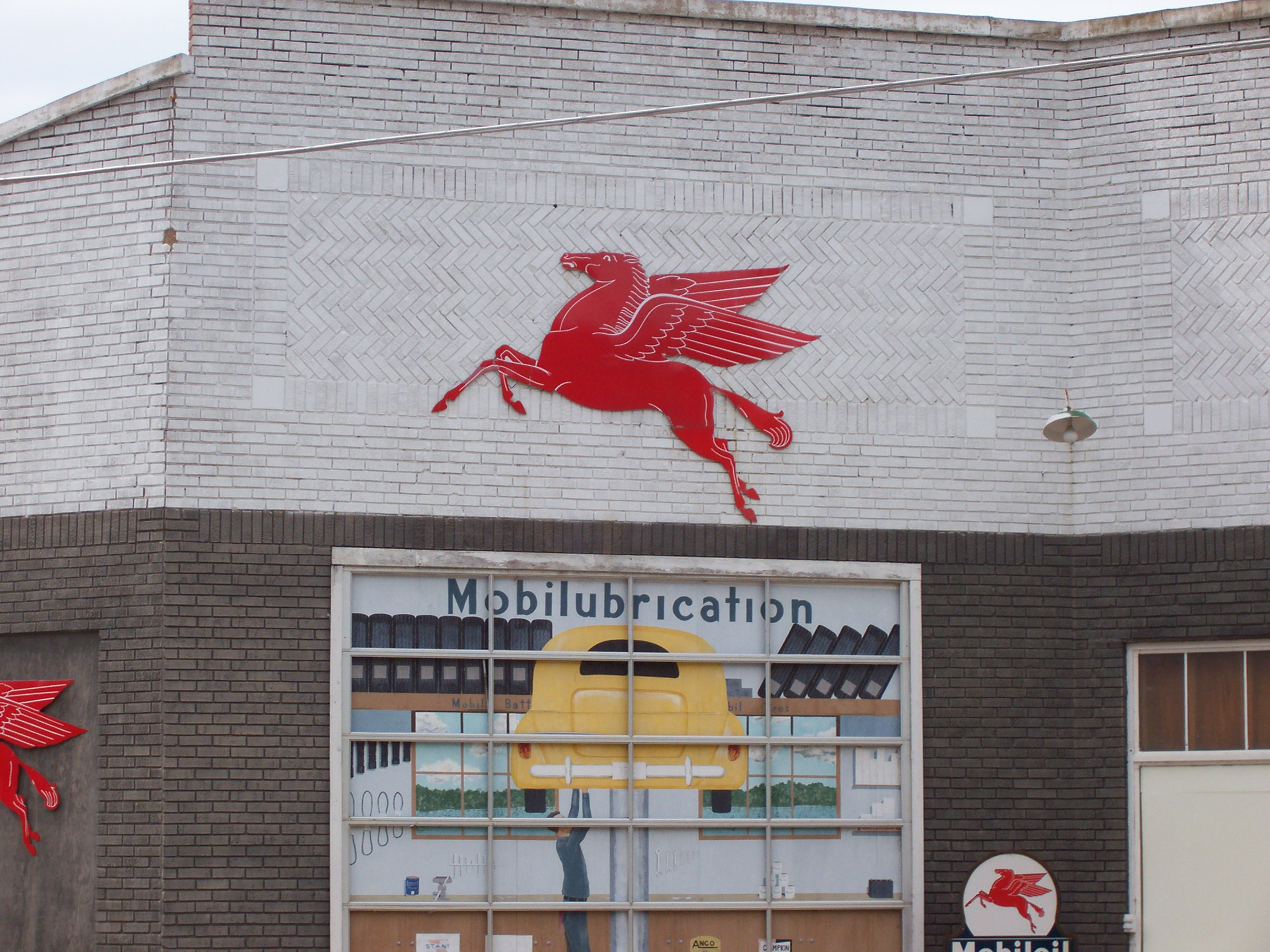 I took this image myself at a current Mobil gas station in Cecil, Wisconsin, USA. The station still uses old logo signage. I have three other images.